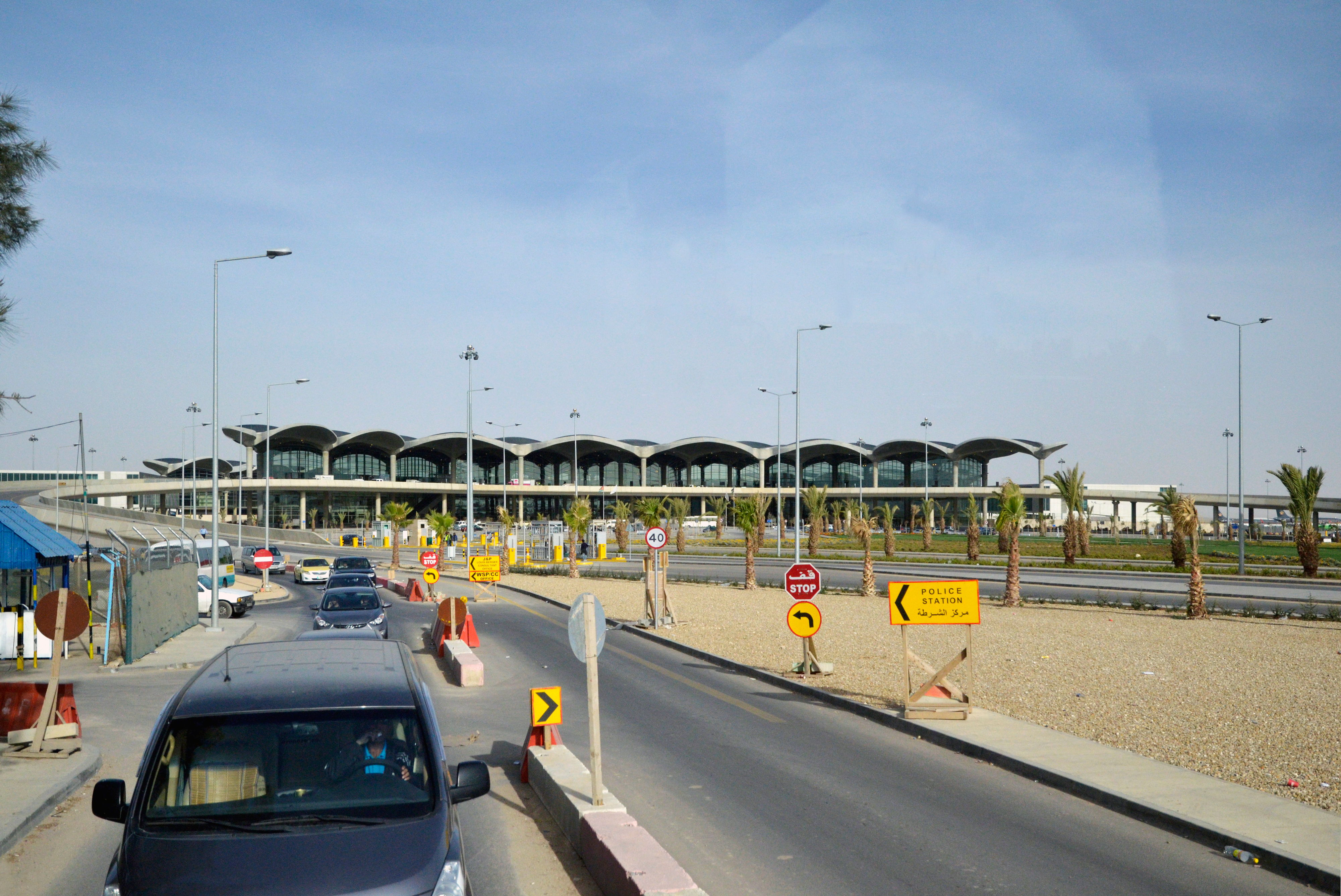 Queen Alia International Airport